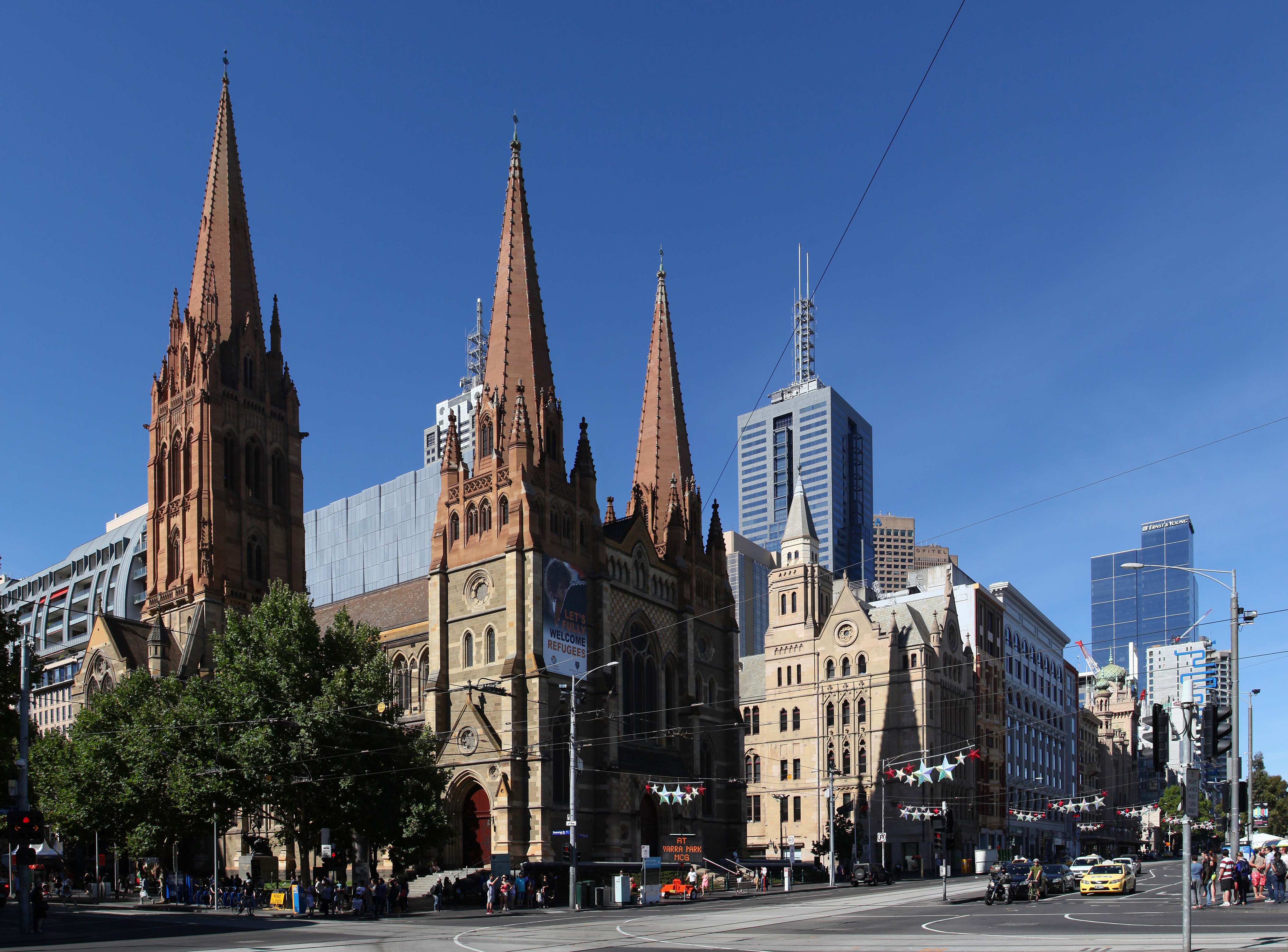 St Paul's Cathedral, Melbourne